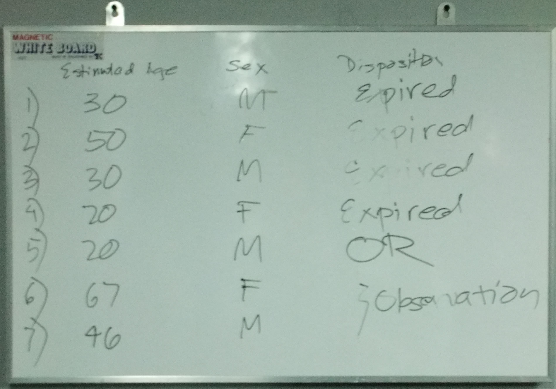 An announcement board at Manila Doctor's Hospital, after 2010 Manila hostage crisis, shows the victims situation.